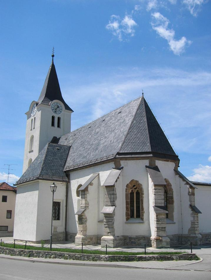 Church of st. Andrew, Makole, Slovenia This media shows a cultural heritage object of Slovenia with the EŠD number: 3130 photo:Ziga 21:26, 12 August 2006 (UTC)